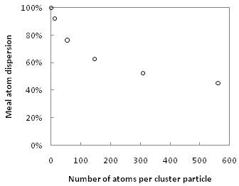 Dispersion vs. number of metal atoms per particle for ideal isocahedral metal clusters.